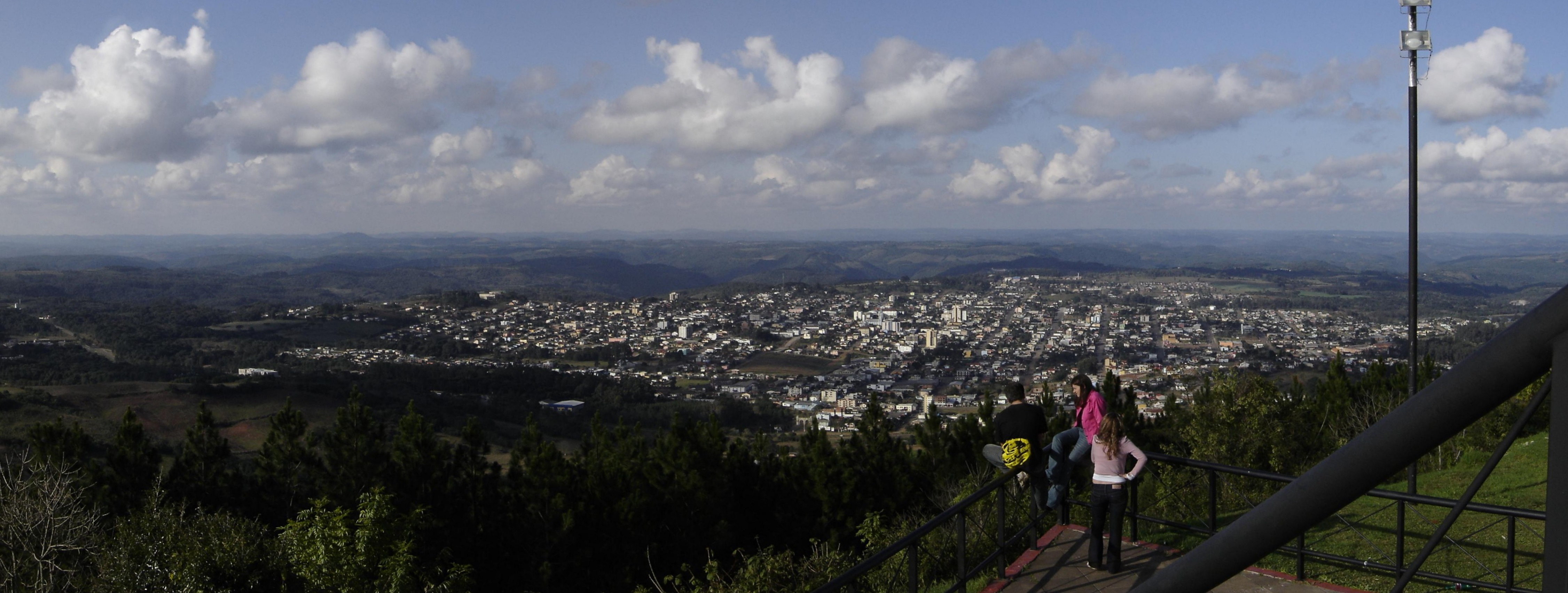 View of the Brazilian city of Guaporé from the "Christ the Redeemer" statue